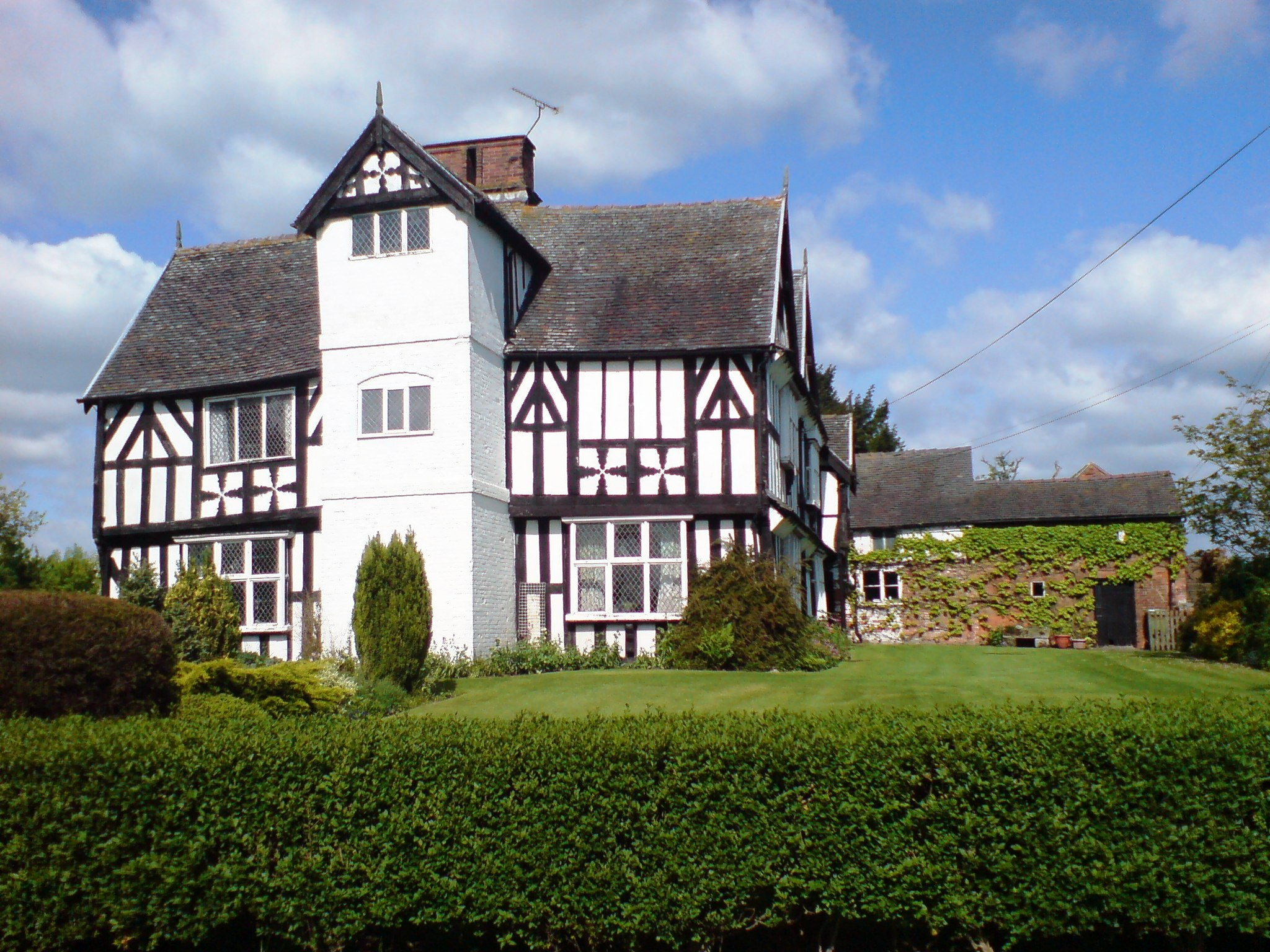 Clanford Hall is a Tudor style mansion in Coton Clanford, Staffordshire, England. It is now used as a farm house.